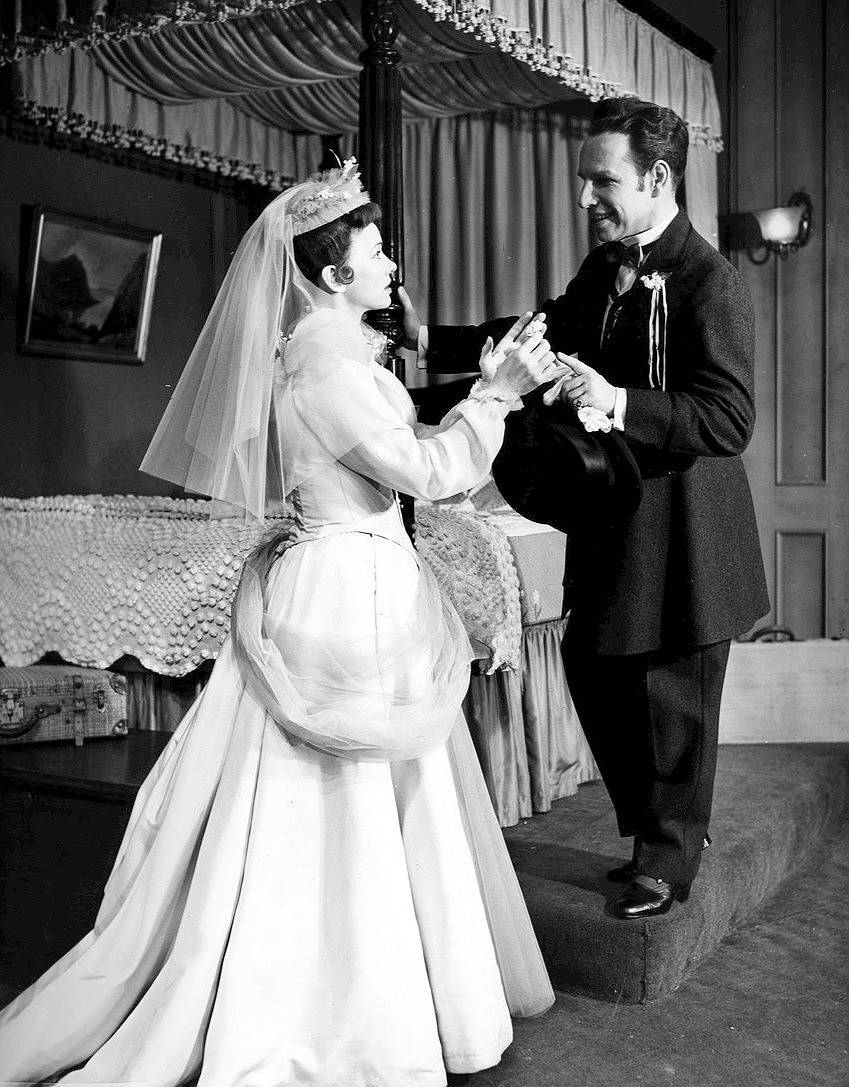 Photo of Jessica Tandy and Hume Cronyn in the Broadway play, The Fourposter.